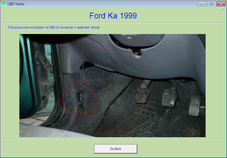 OBD2 plug image in Ford Ka 1999 as displayed in OBDTester